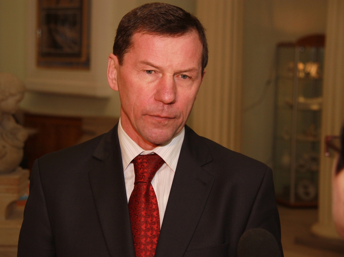 Henryk Milcarz, Member of Polish Parliament